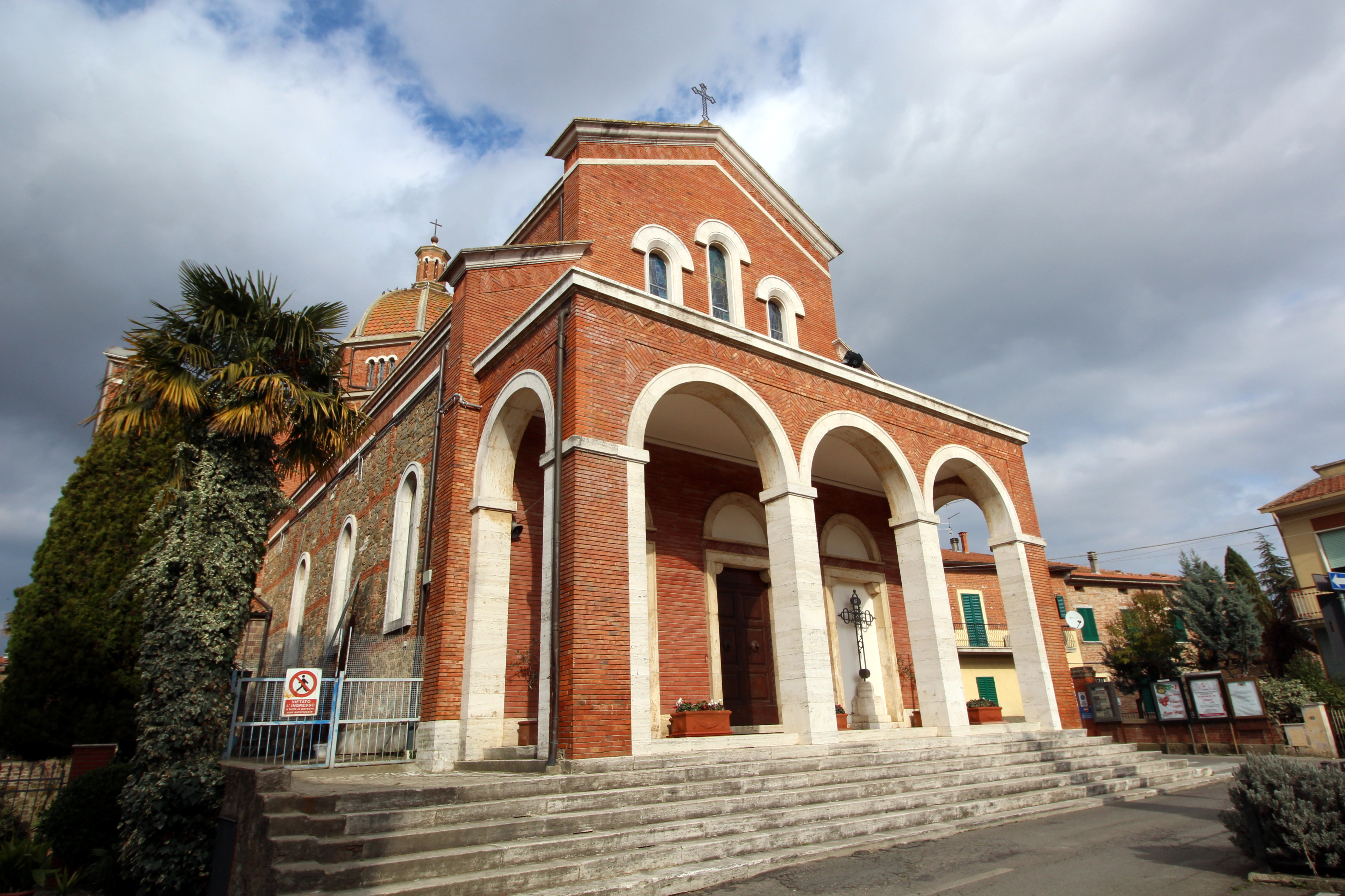 Church San Biagio, Pozzo della Chiana, hamlet of Foiano della Chiana, Province of Arezzo, Tuscany, Italy